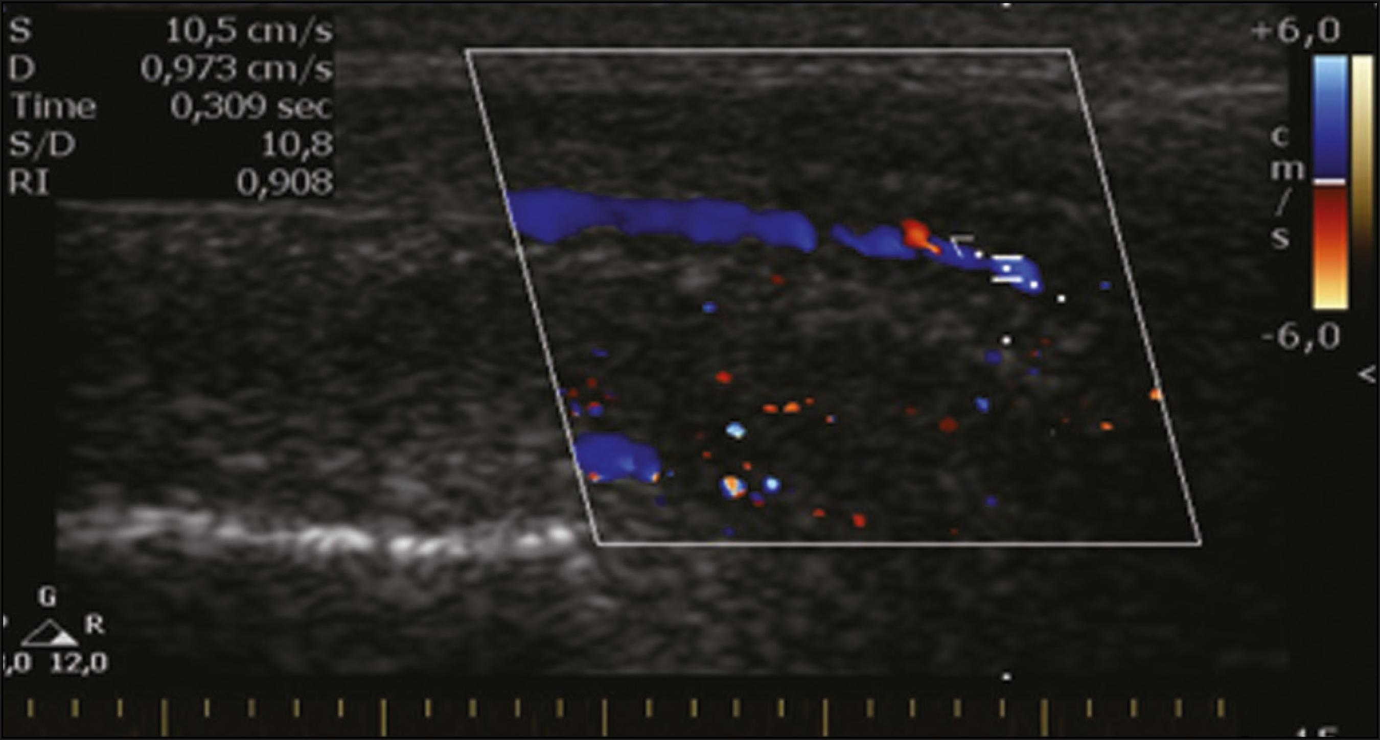 edit For context, see Penile ultrasonography.